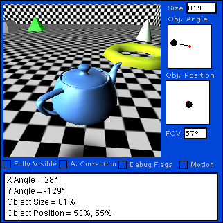 Virtual camera system demo showing parameters that can be adjusted, such as the field of view, rotation, distance to the camera, etc.